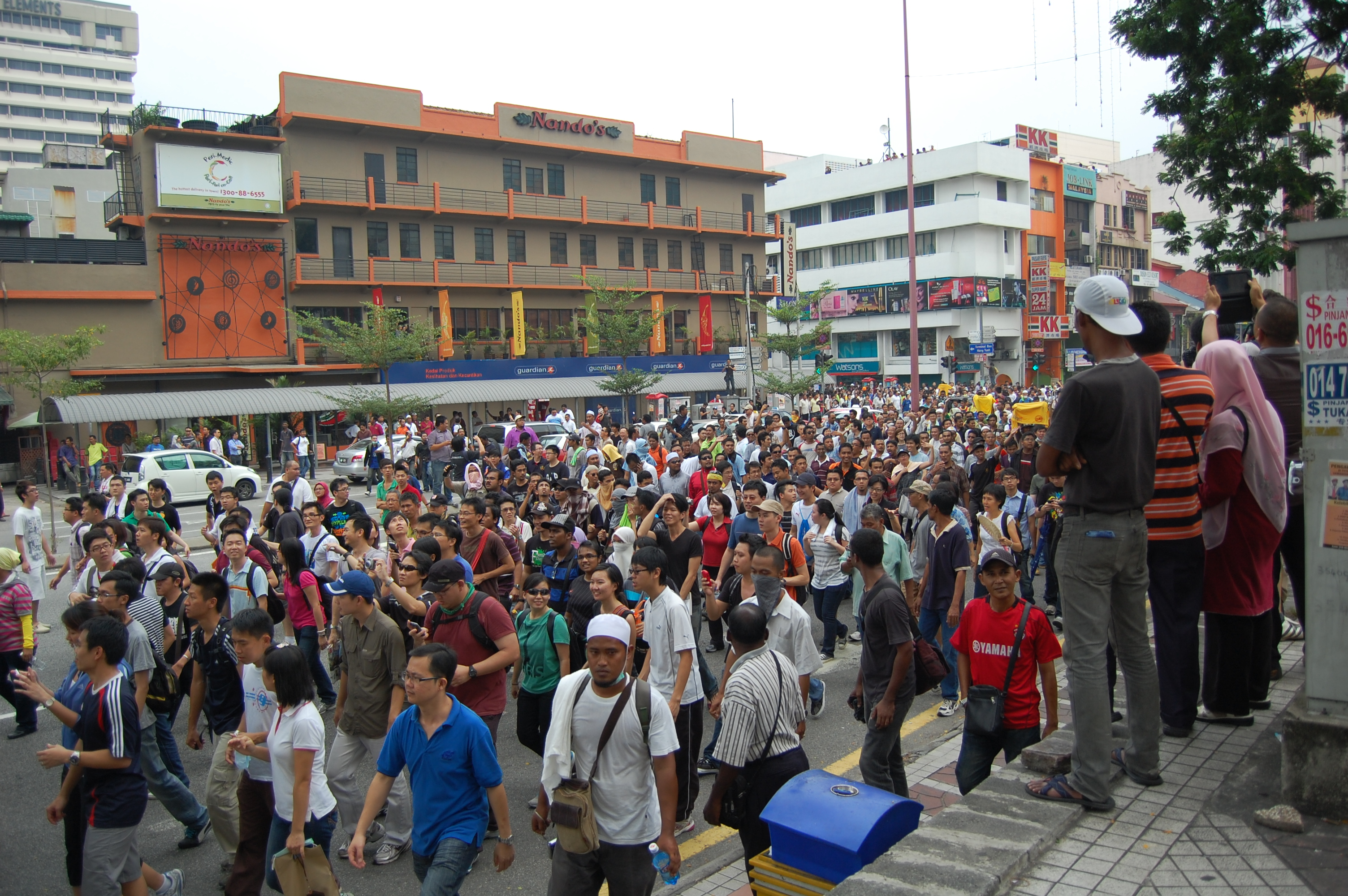 I, Hafiz Noor Shams user __earth am the author of this media. Protesters marching peacefully on the streets of Kuala Lumpur before the police confronted them.